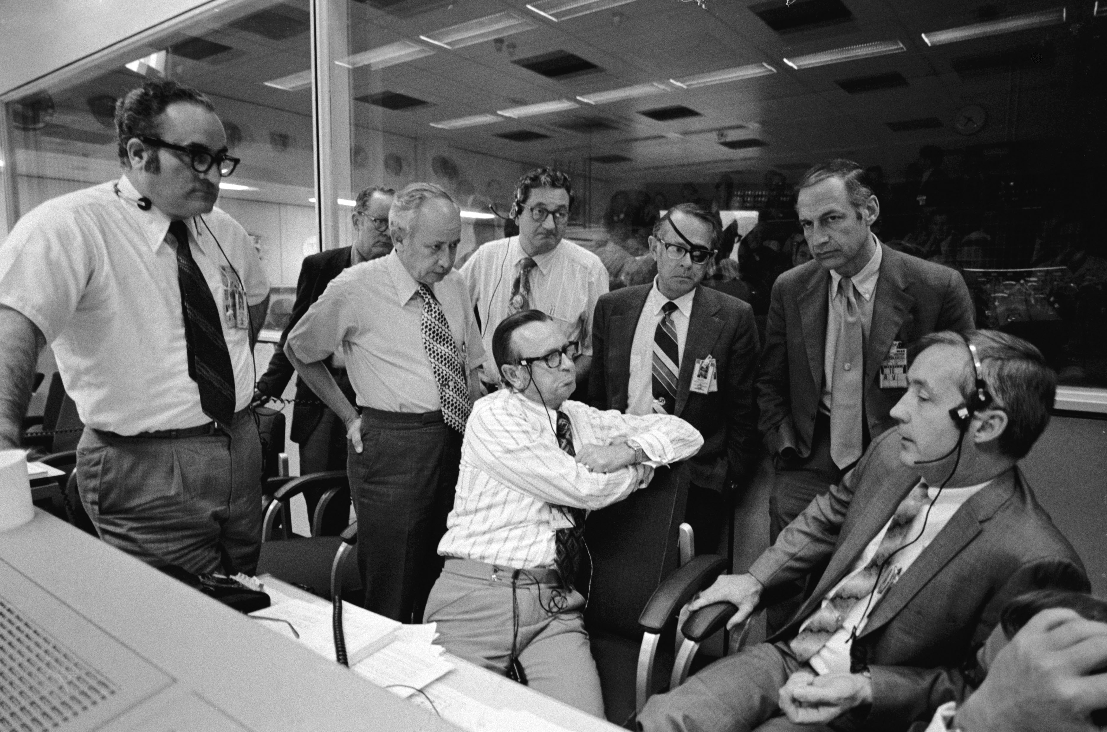 S72-37009 (20 April 1972) --- NASA officials gather around a console in the Mission Operations Control Room (MOCR) in the Mission Control Center (MCC) prior to the making of a decision whether to land Apollo 16 on the moon or to abort the landing. Seated, left to right, are Dr. Christopher C. Kraft Jr., Director of the Manned Spacecraft Center (MSC), and Brig. Gen. James A. McDivitt (USAF), Manager, Apollo Spacecraft Program Office, MSC; and standing, left to right, are Dr. Rocco A. Petrone, Apollo Program Director, Office Manned Space Flight (OMSF), NASA HQ.; Capt. John K. Holcomb (U.S. Navy, Ret.), Director of Apollo Operations, OMSF; Sigurd A. Sjoberg, Deputy Director, MSC; Capt. Chester M. Lee (U.S. Navy, Ret.), Apollo Mission Director, OMSF; Dale D. Myers, NASA Associate Administrator for Manned Space Flight; and Dr. George M. Low, NASA Deputy Administrator. Photo credit: NASA